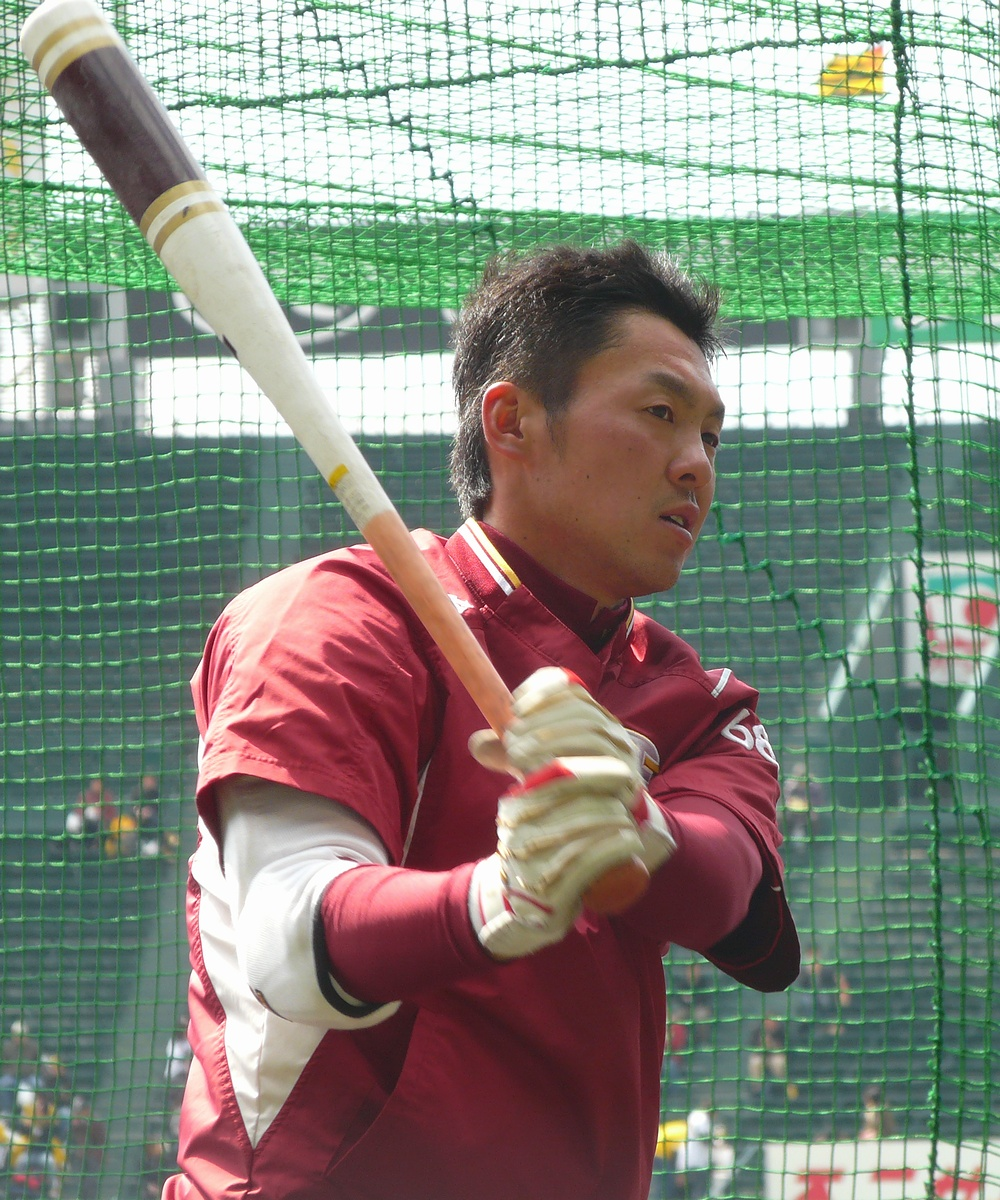 Shintaro Masuda, outfielder of the Tohoku Rakuten Golden Eagles, at Hanshin Koshien Stadium.